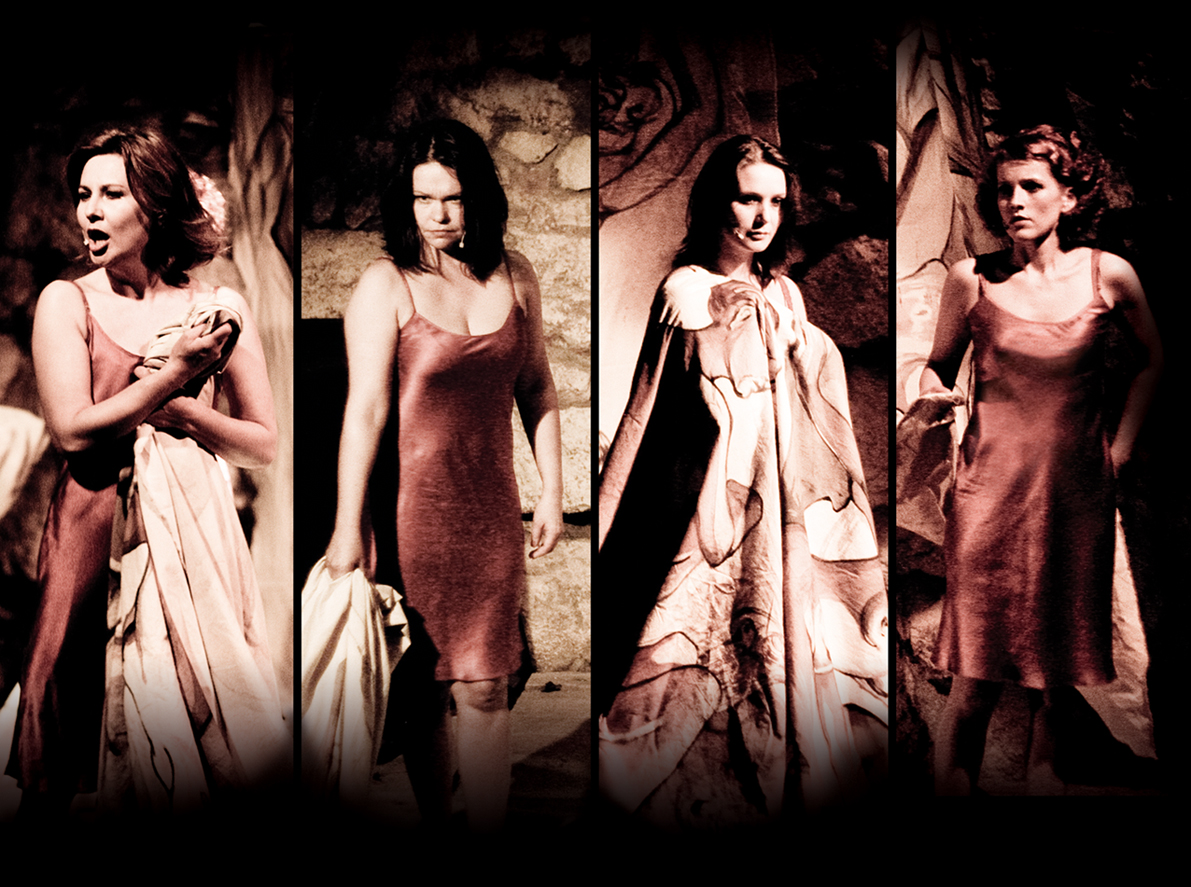 Marlena Zynger poetic spectacle "Czas Śpiewu Kobiety. Odsłona Pierwsza" at Loch Camelot in Kraków, 2009